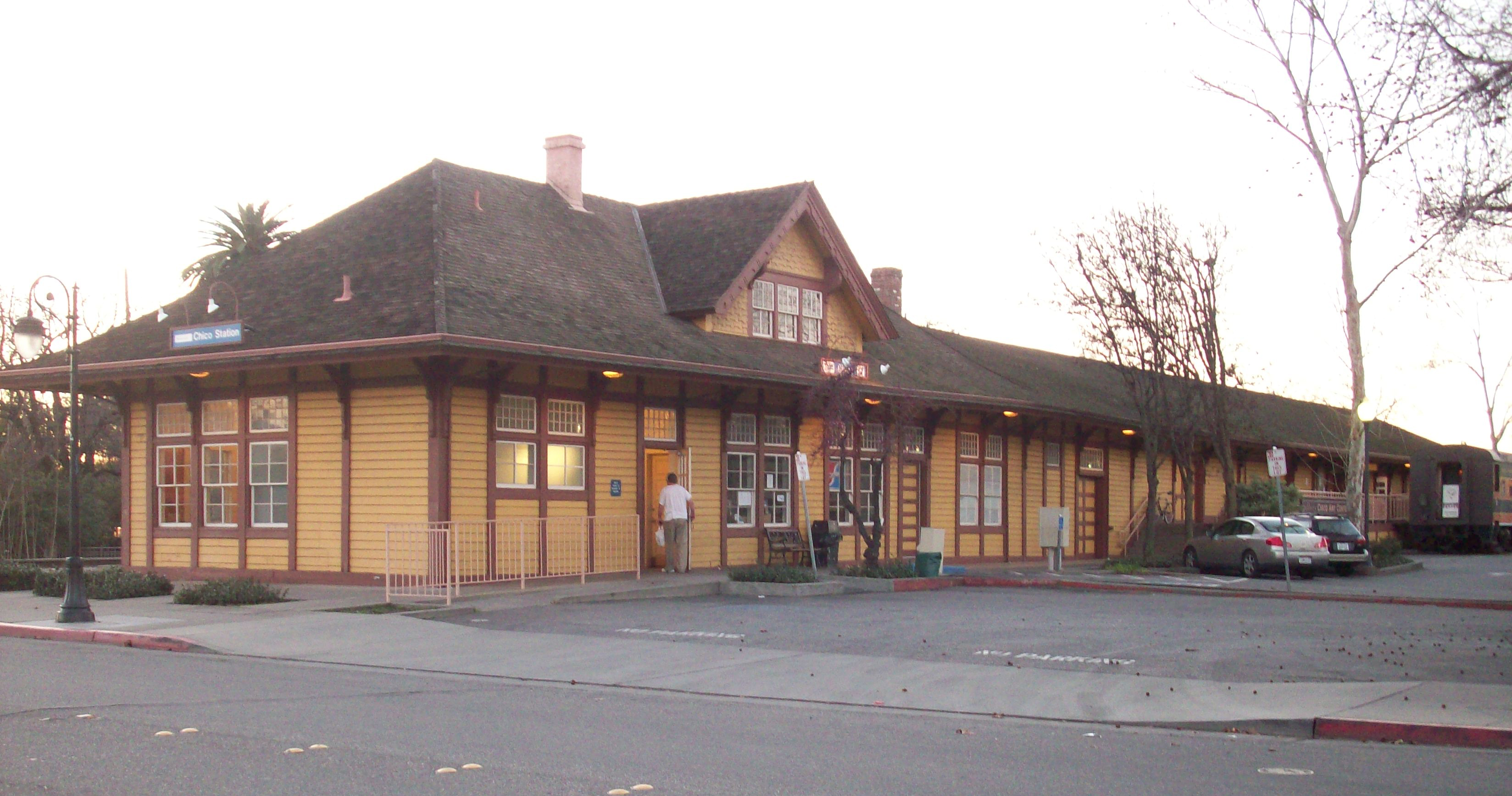 I took this picture. I relinquish all rights. -Greg Bard